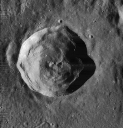 Horrocks, on the moon.